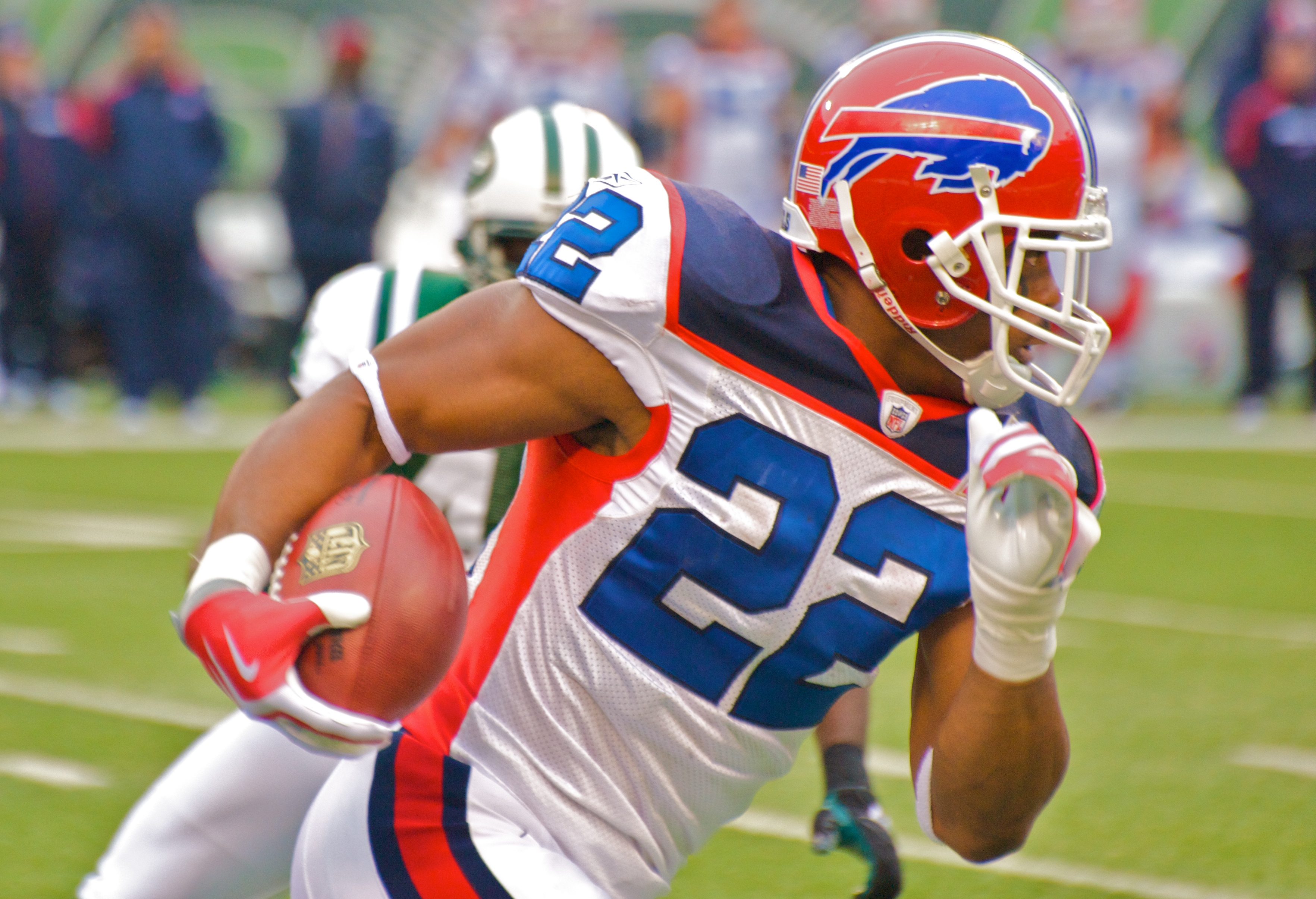 Fred Jackson of the Buffalo Bills